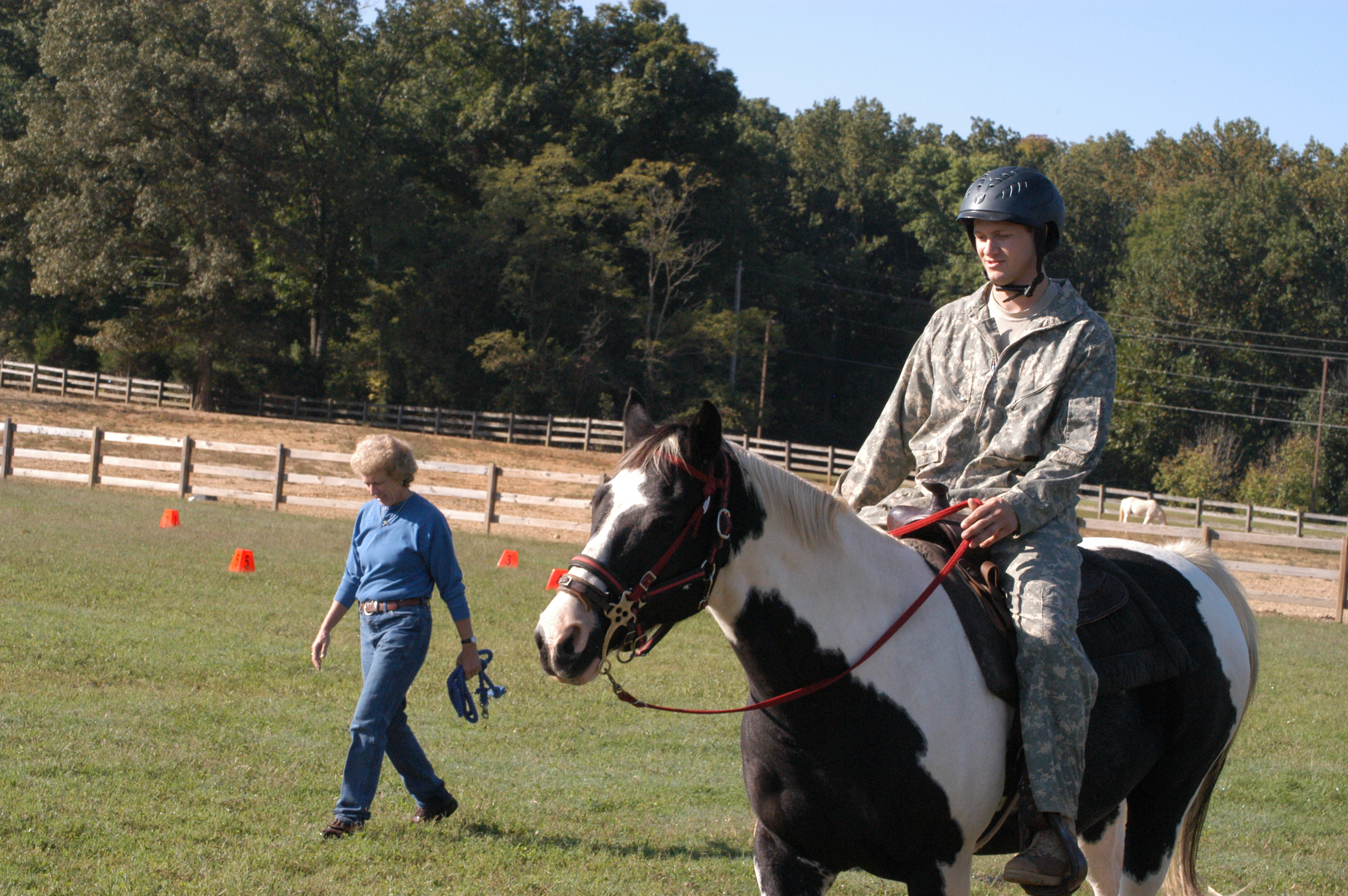 Specialist Patrick Adams, 2nd Brigade Combat Team, 101st Airborne Division, takes Missy for a ride during his Wednesday therpeutic routine. Adams, who said Missy is very loving, hopes to complete his program in November. He takes part in the program due to injuries sustained from explosions while in Iraq.